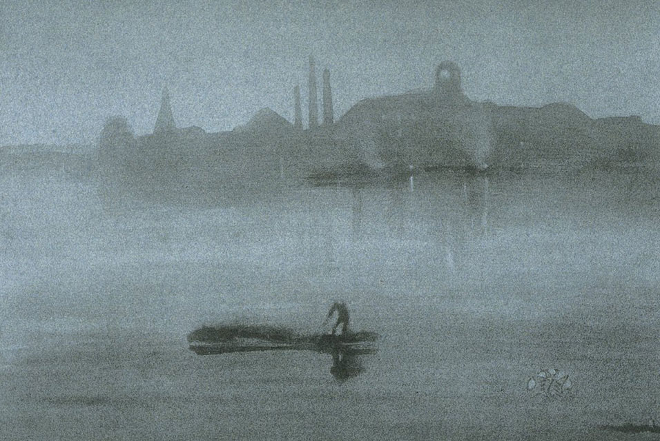 James McNeill Whistler, Nocturne, 1878, lithotint with scraping on a prepared half-tint ground printed on blue-grey paper, University of Michigan Museum of Art